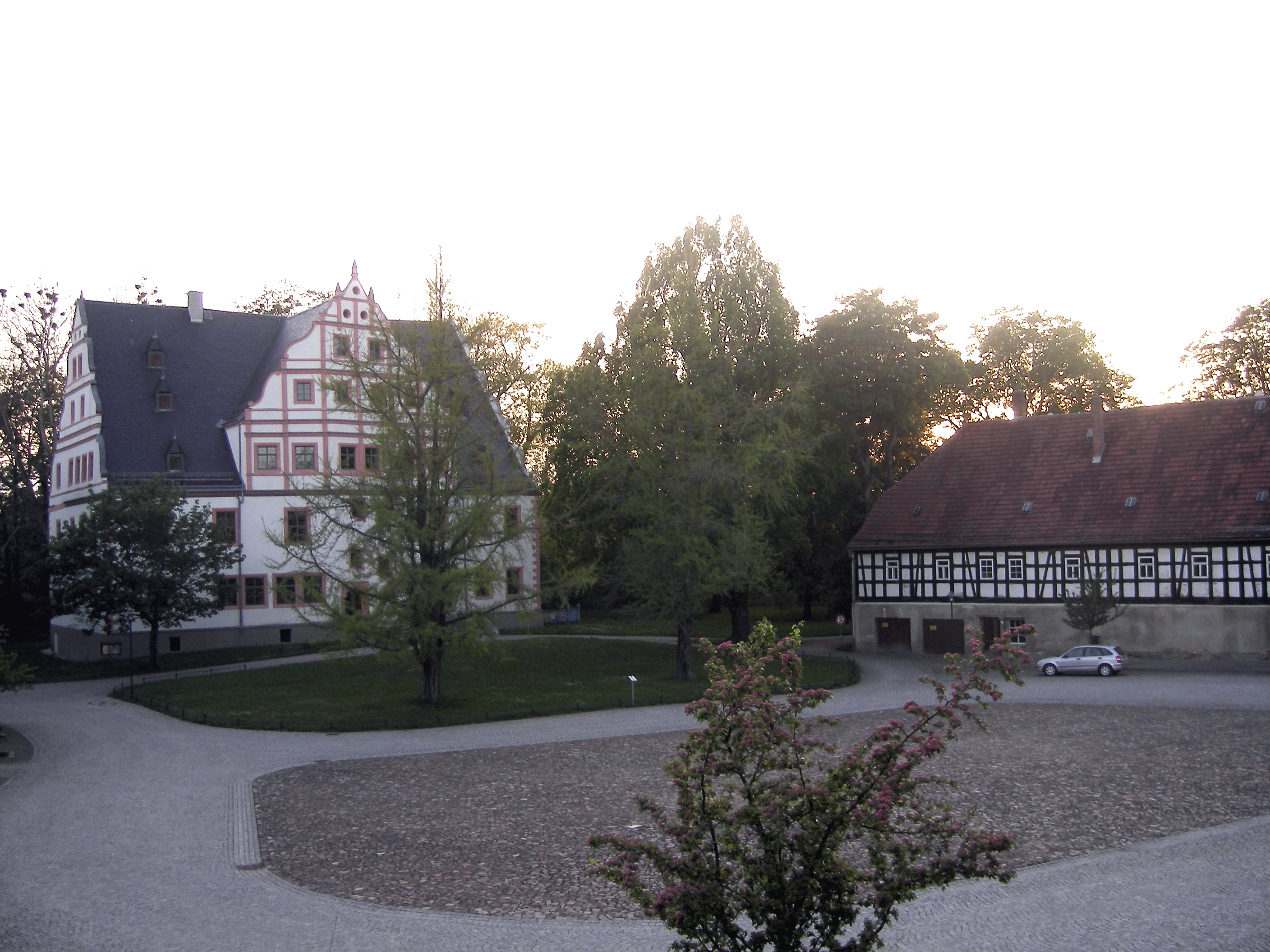 The castle in Ponitz, Altenburger Land, Thuringia, Germany.